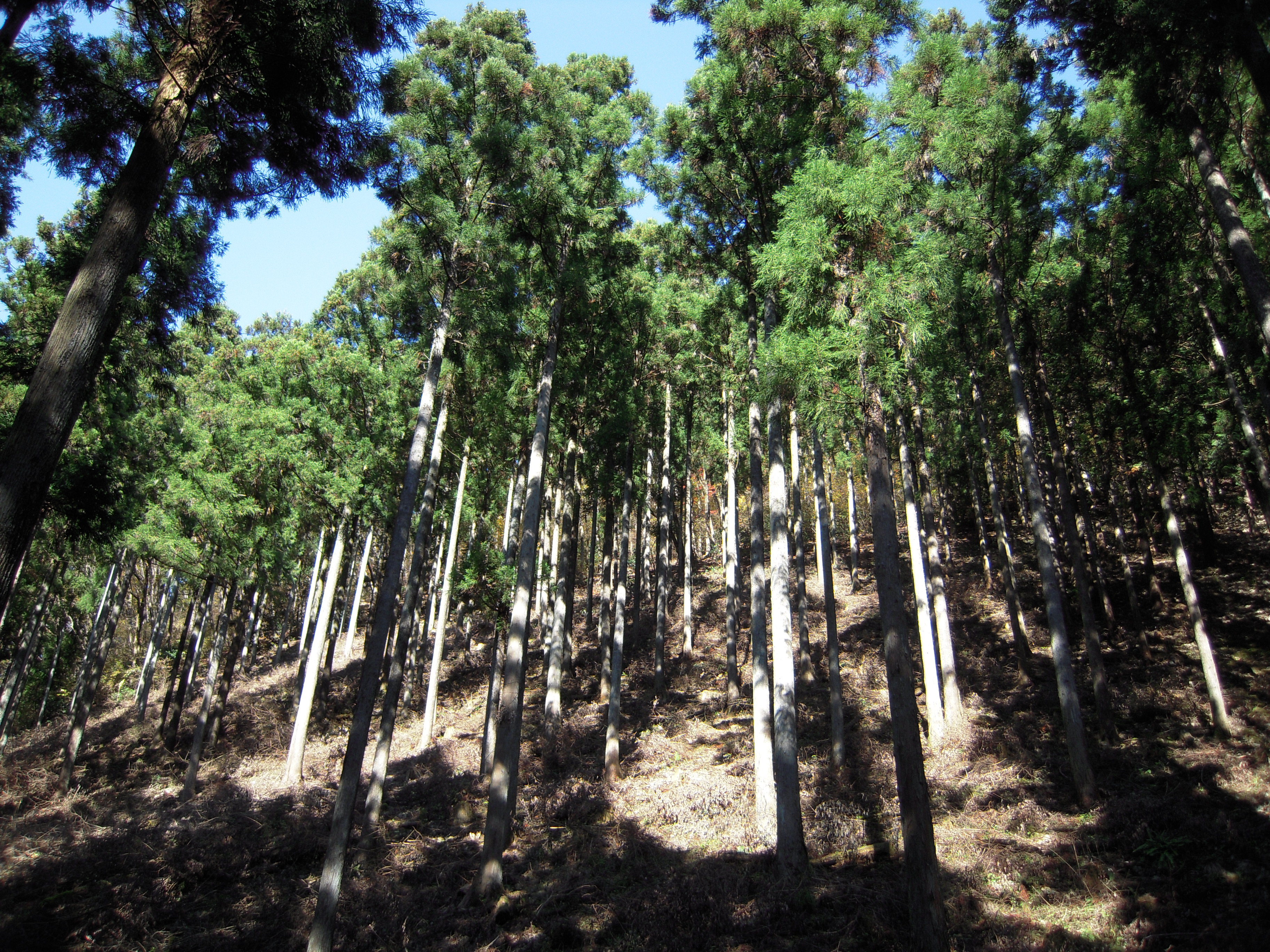 kanbatsutenjirin